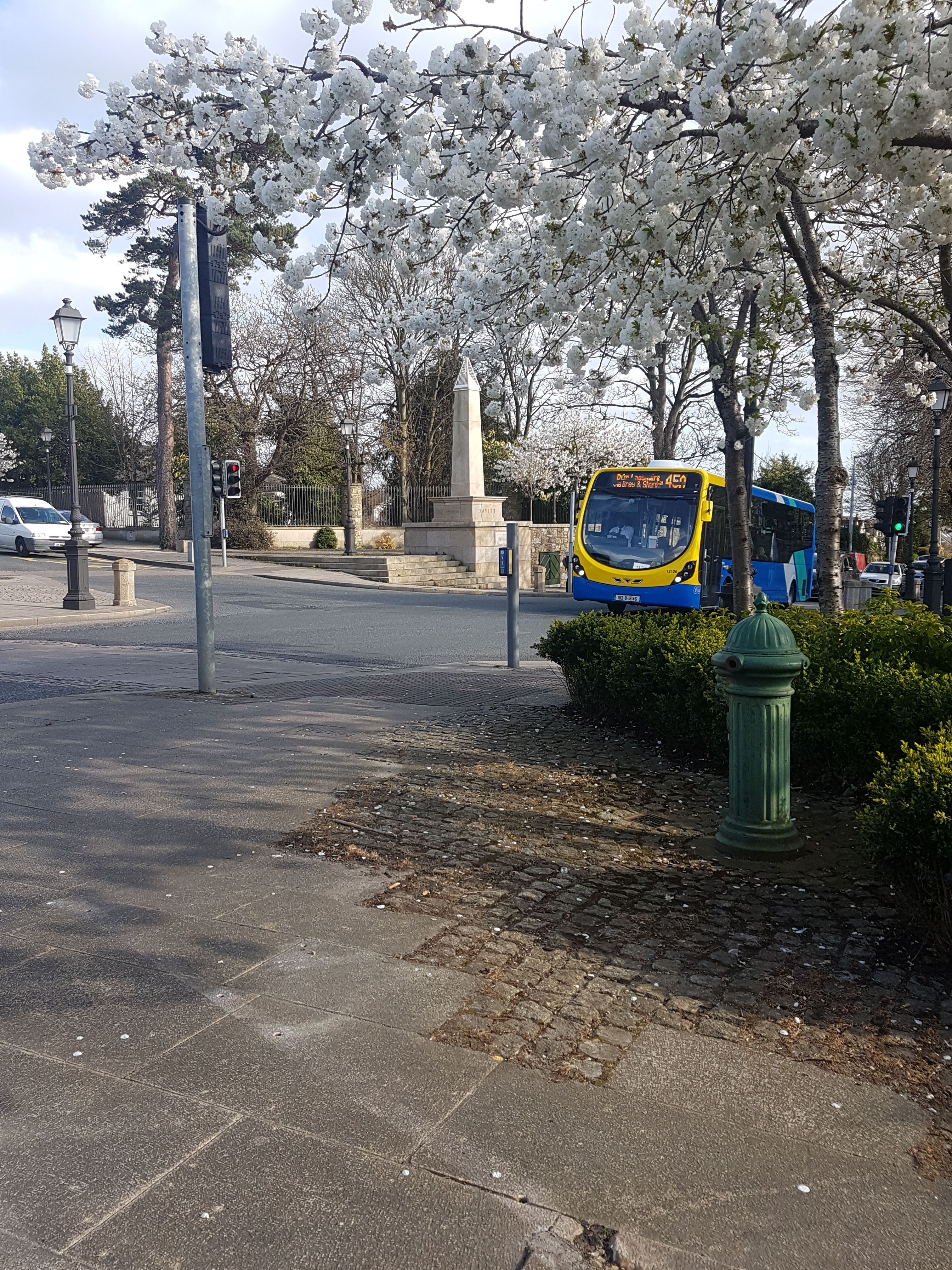 Image of Ballybrack Village during Spring time